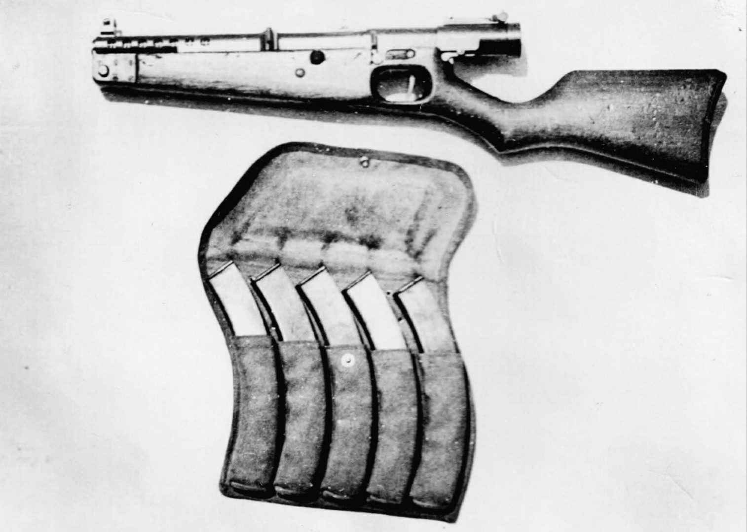 japanese smg